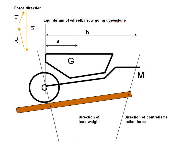 force apply on wheelbarrow when going downslope